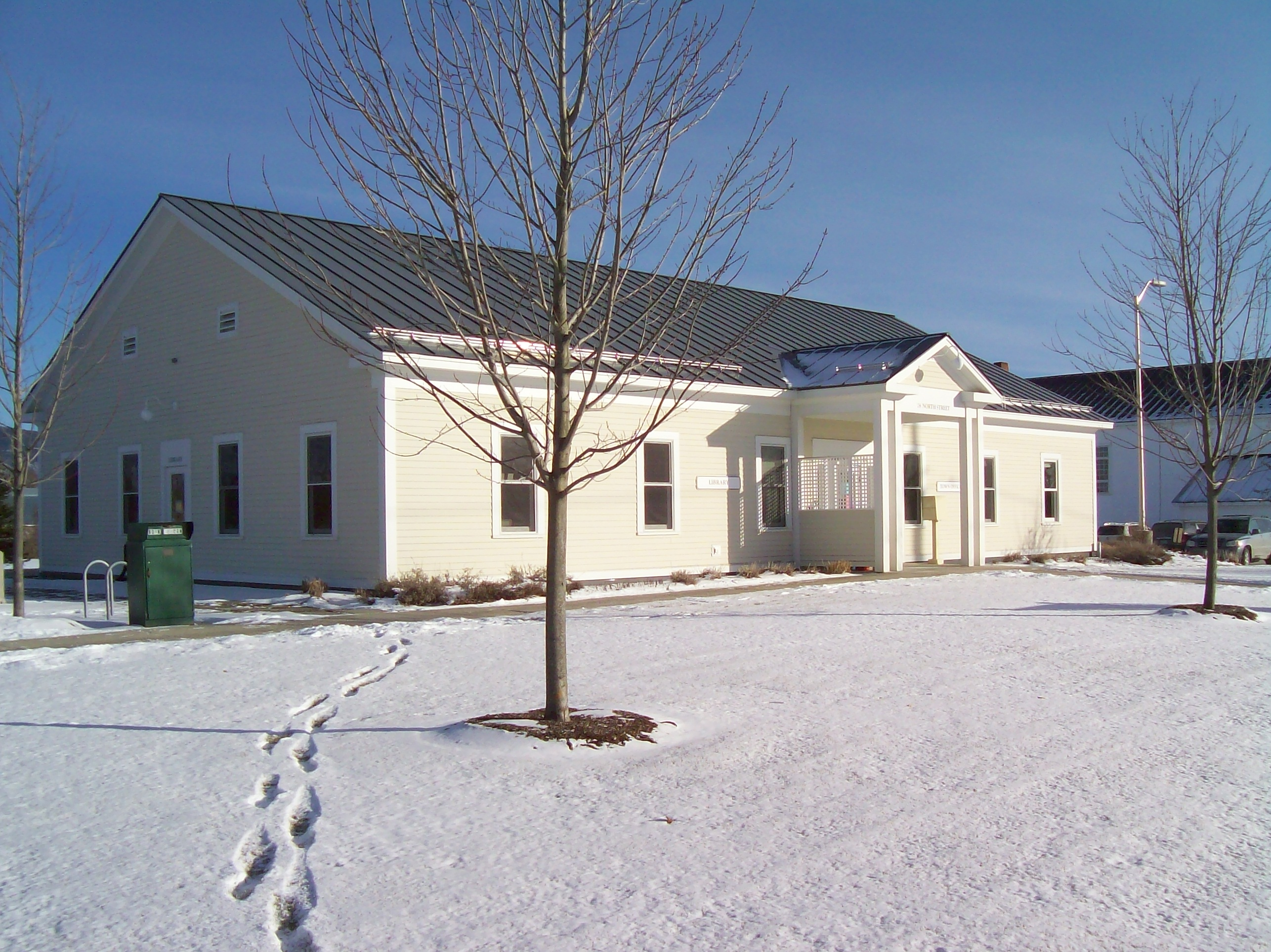 The building that houses both the library and town offices for the town of New Haven, Vermont. The after-hours book return box can be seen at left.